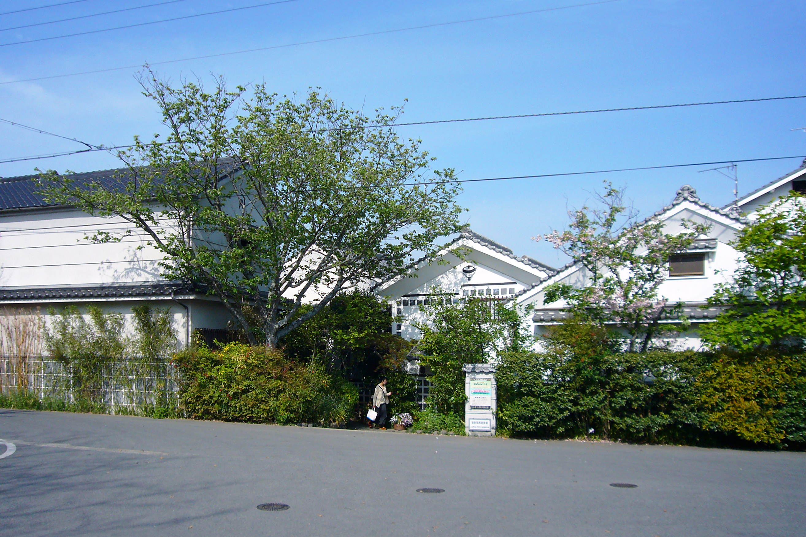 Japan Toy Museum in Himeji, Hyogo prefecture, Japan.